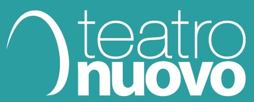 Logo of the Teatro Nuovo (Naples) as of June 2017